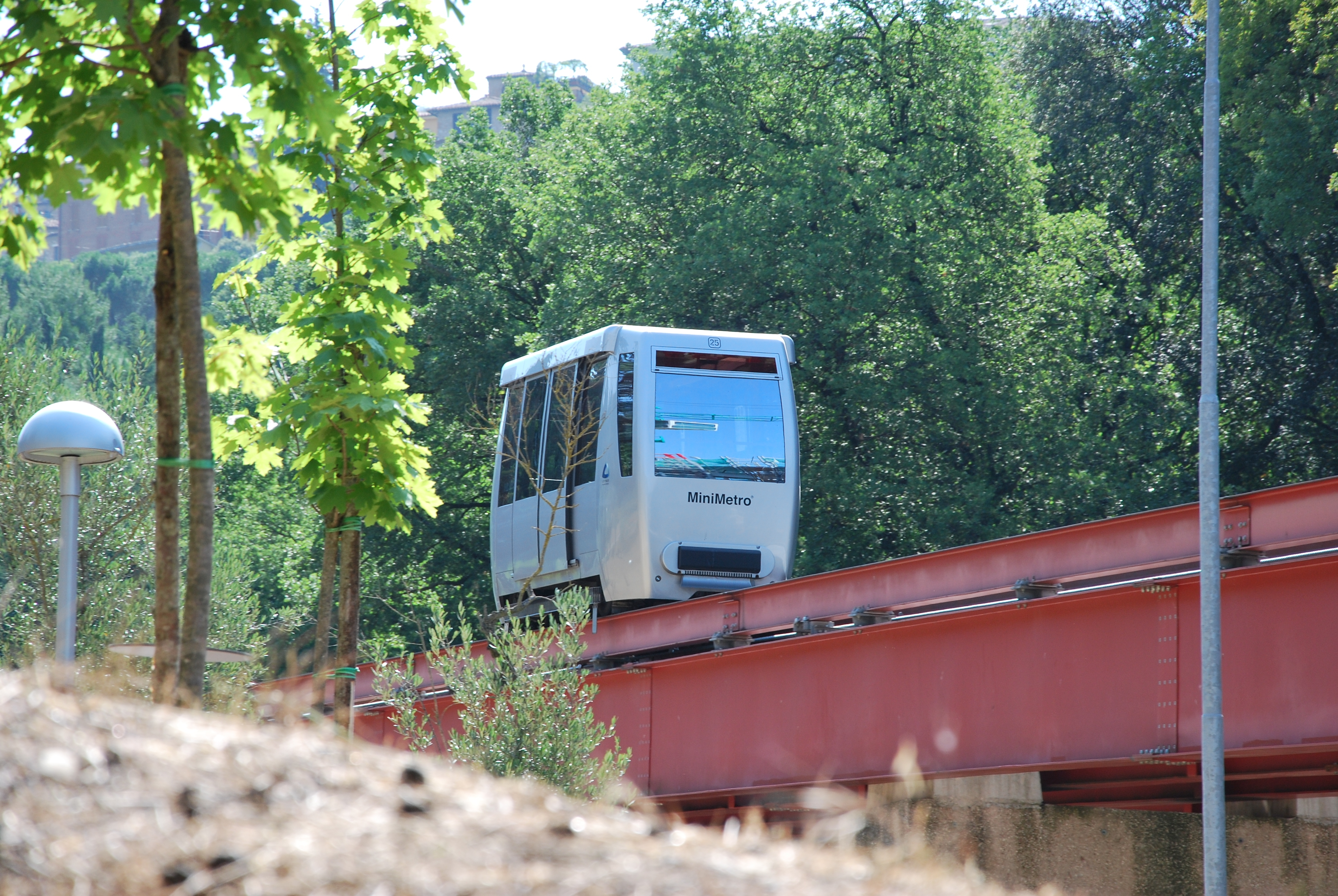 Minimetro in Perugia